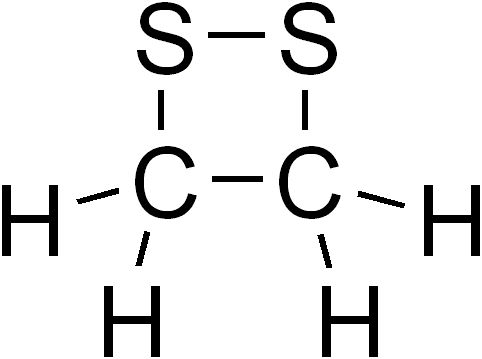 chemical structure of 1,2-dithietane